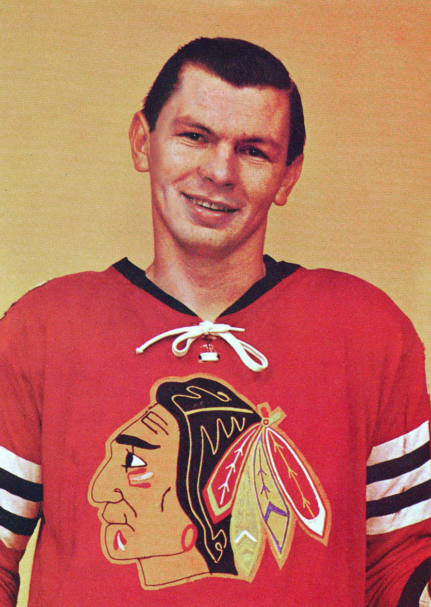 Trading card photo of Stan Mikita as a member of the Chicago Blackhawks. These cards were printed on the backs of Chex cereal boxes in the US and Canada from 1963 to 1965. Those collecting the cards cut them from the back of the boxes. Mikita's card at PSA.